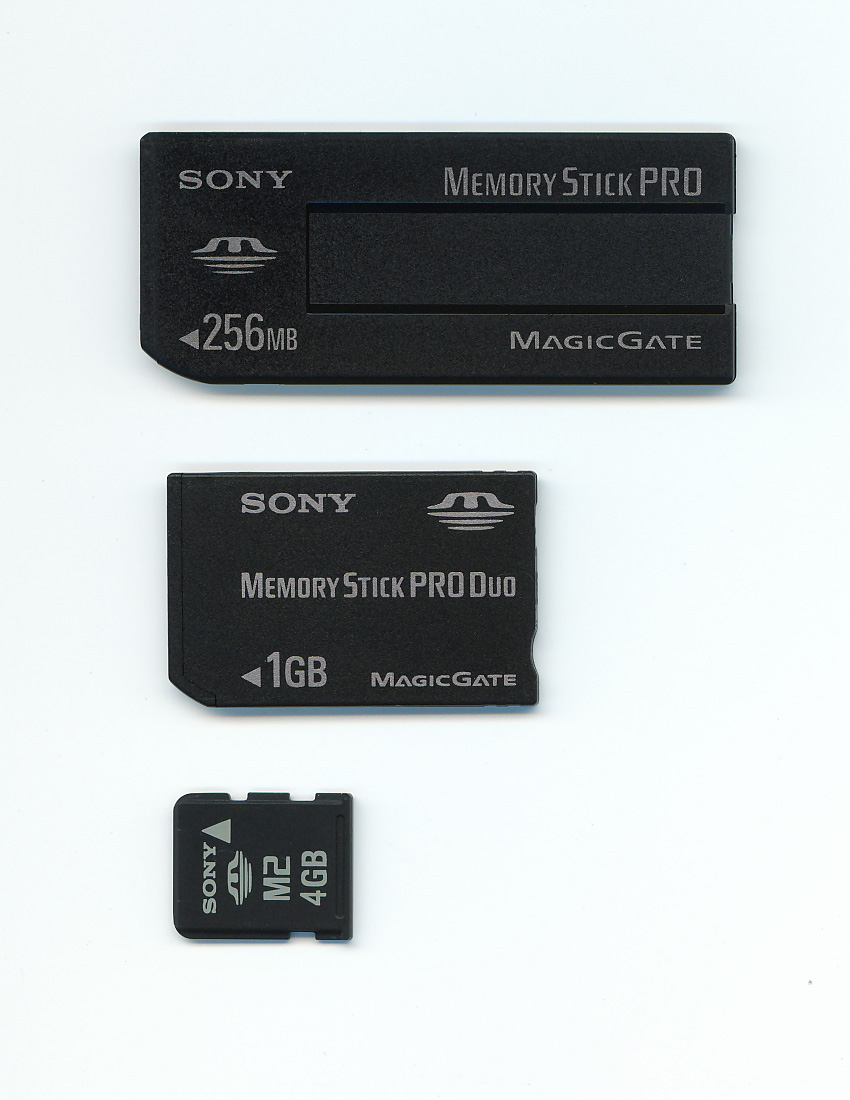 Memory Stick(Standard, Duo and Micro)